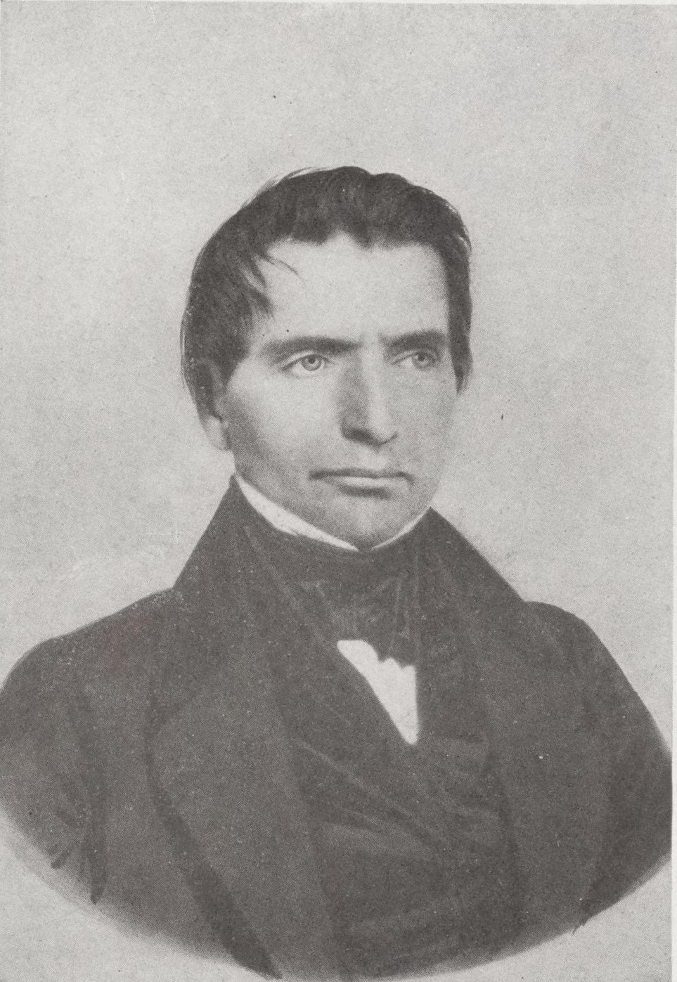 Rodolphus Dickinson, member of the United States House of Representatives from Sandusky County, Ohio.